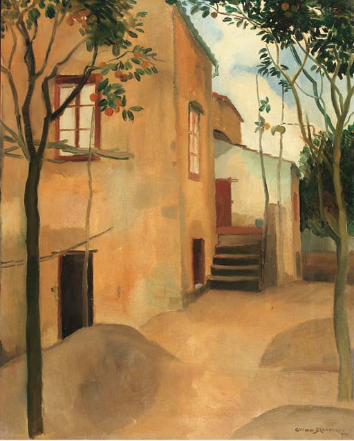 Houses with orange trees